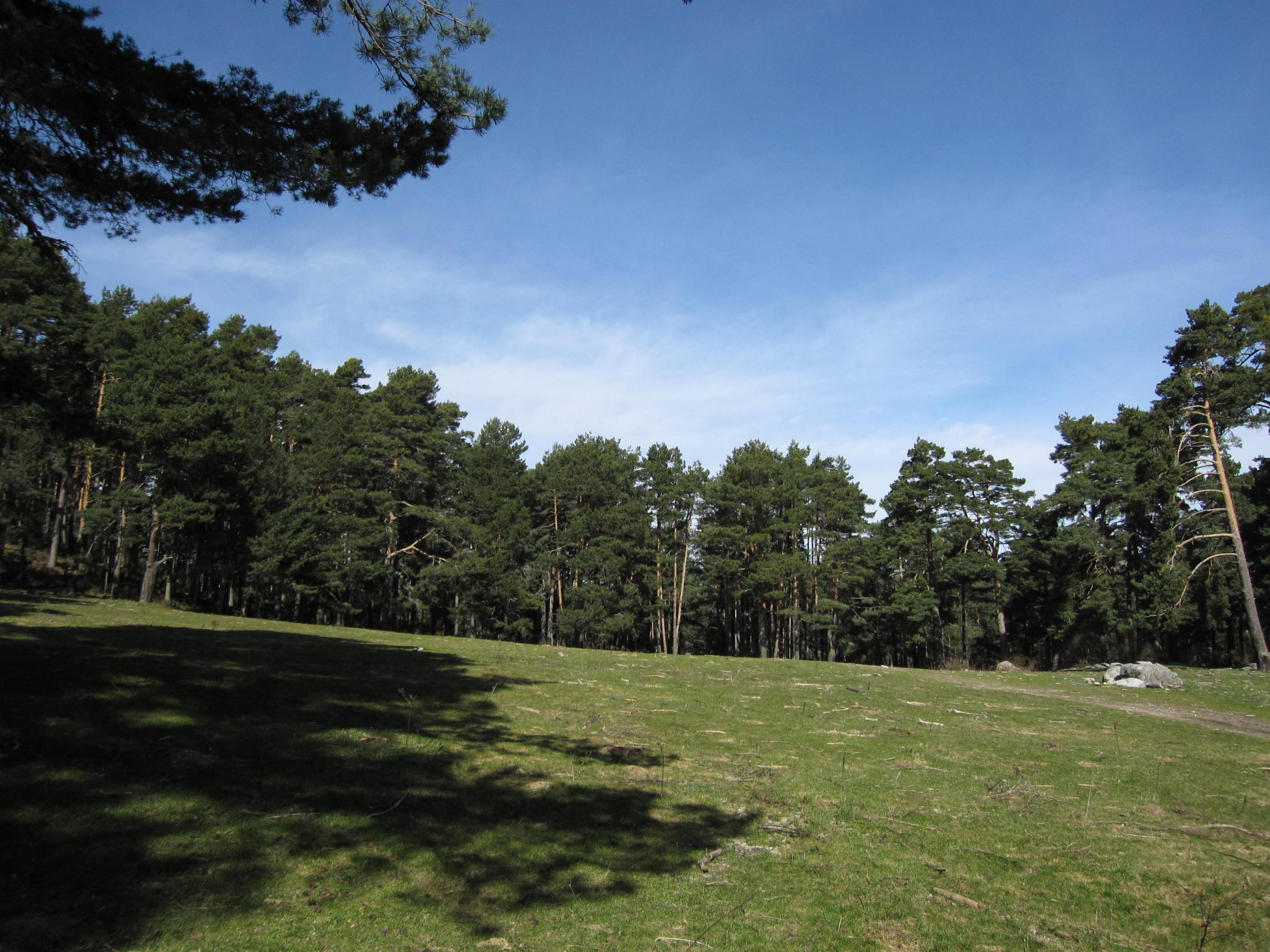 Meadow where was filmed Pan's Labyrinth (Guadarrama mountain range, Central Spain).